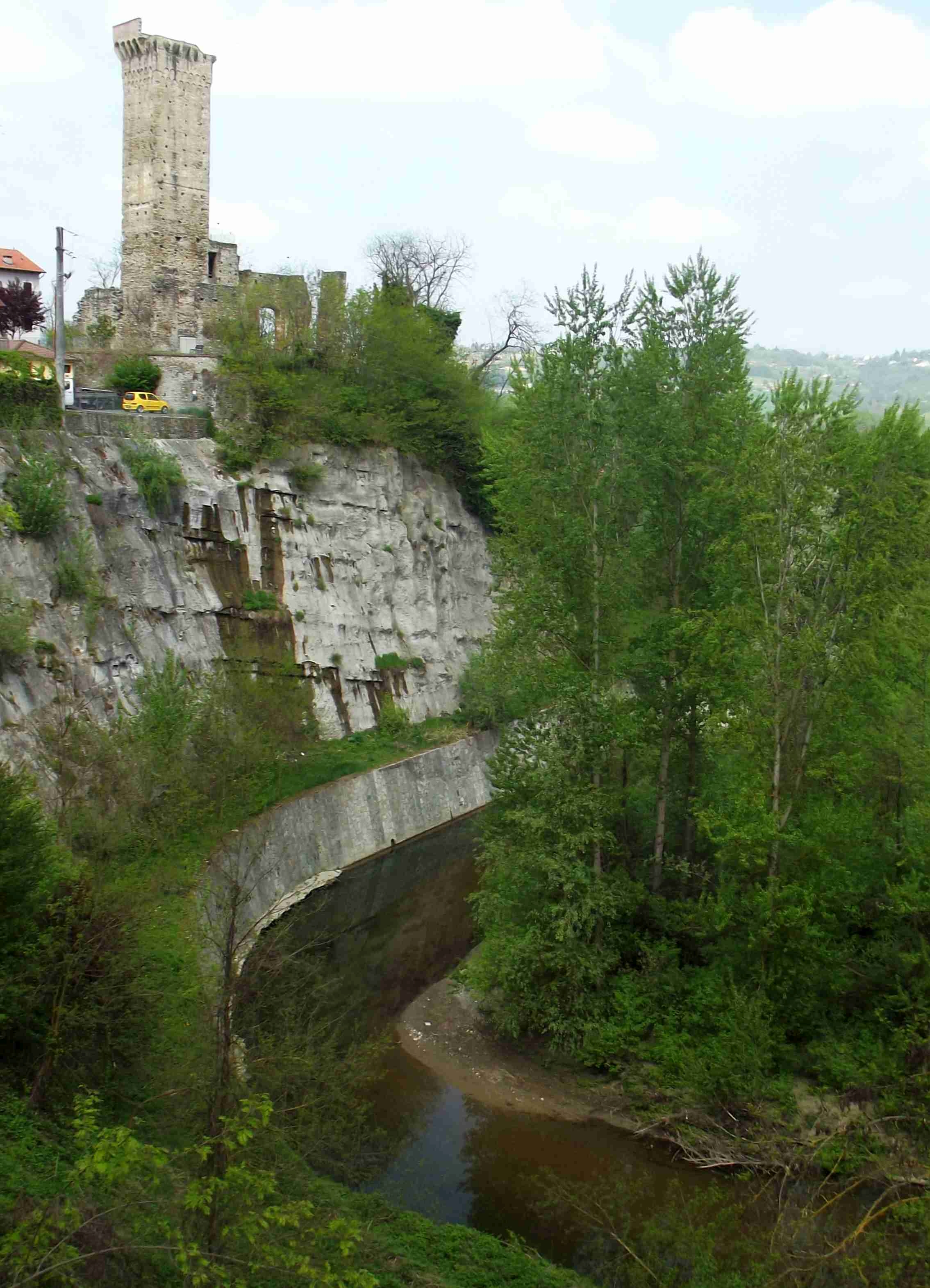 Visone creek and the ancient tower of the village with the same name